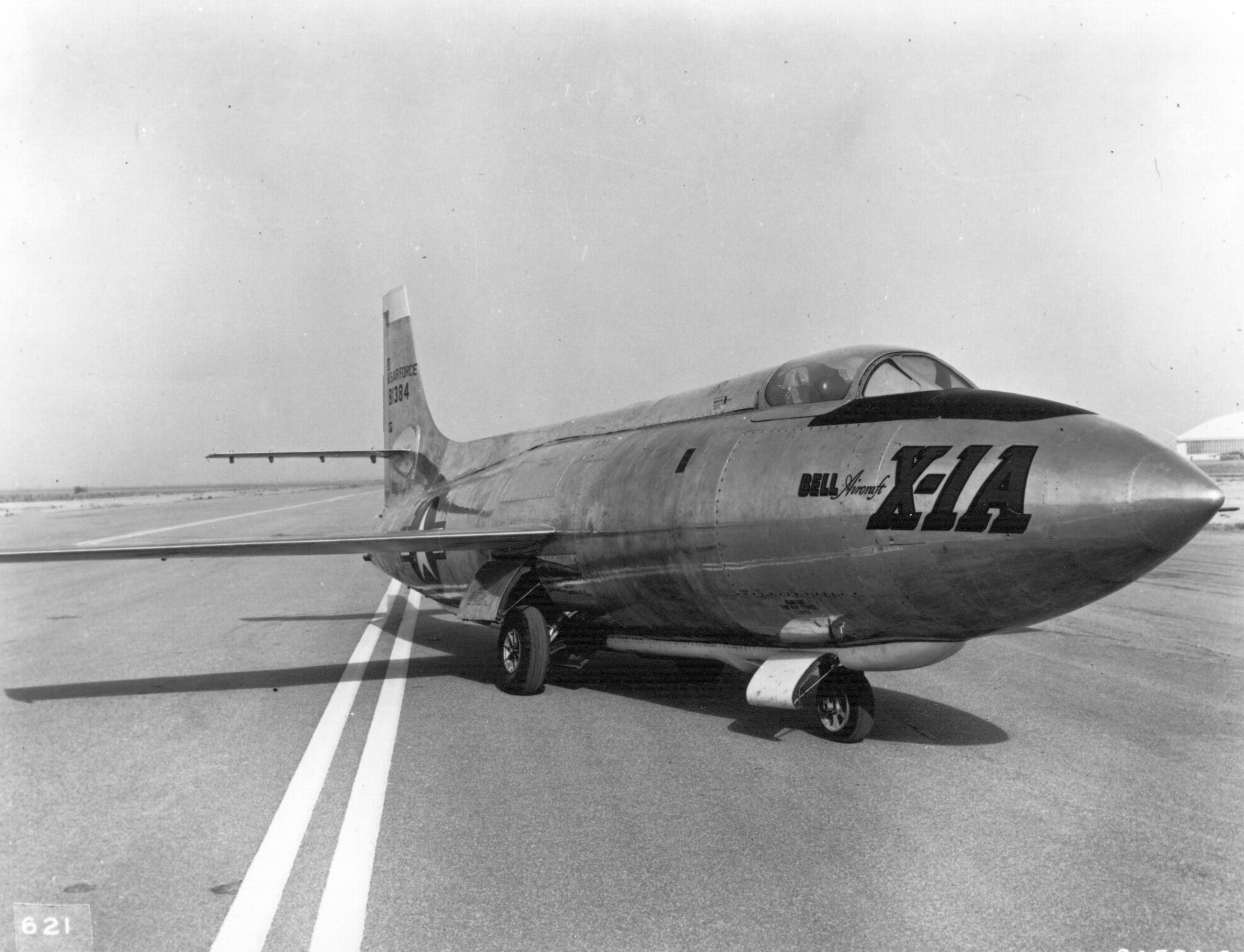 Bell X-1A front view